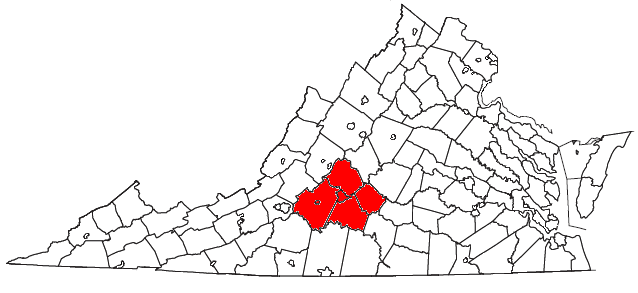 Locator map of the Lynchburg Metropolitan Statistical Area in the central part of the U.S. state of Virginia.